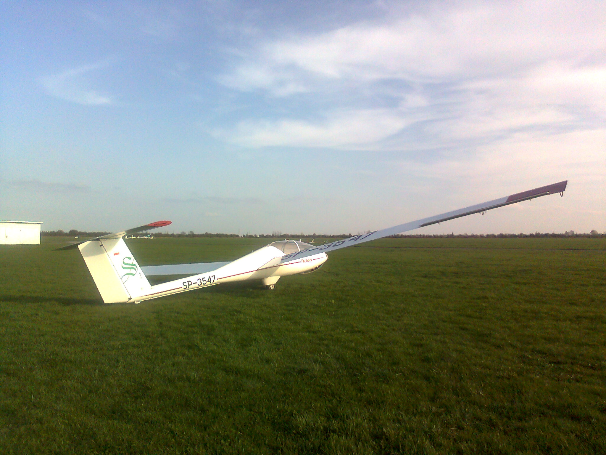 PZL Krosno KR-03 Puchatek